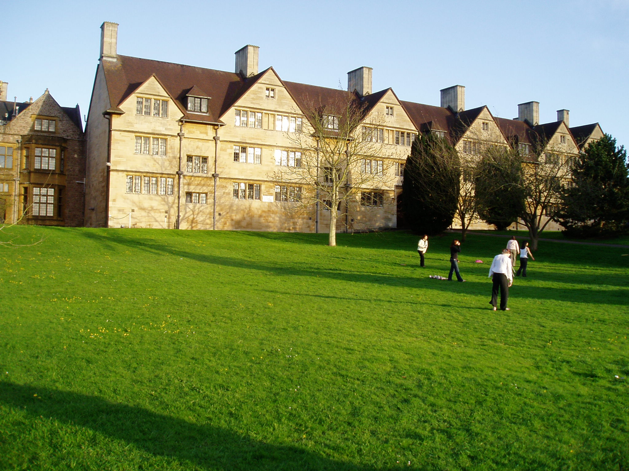 Wills Hall Old Quad exterior